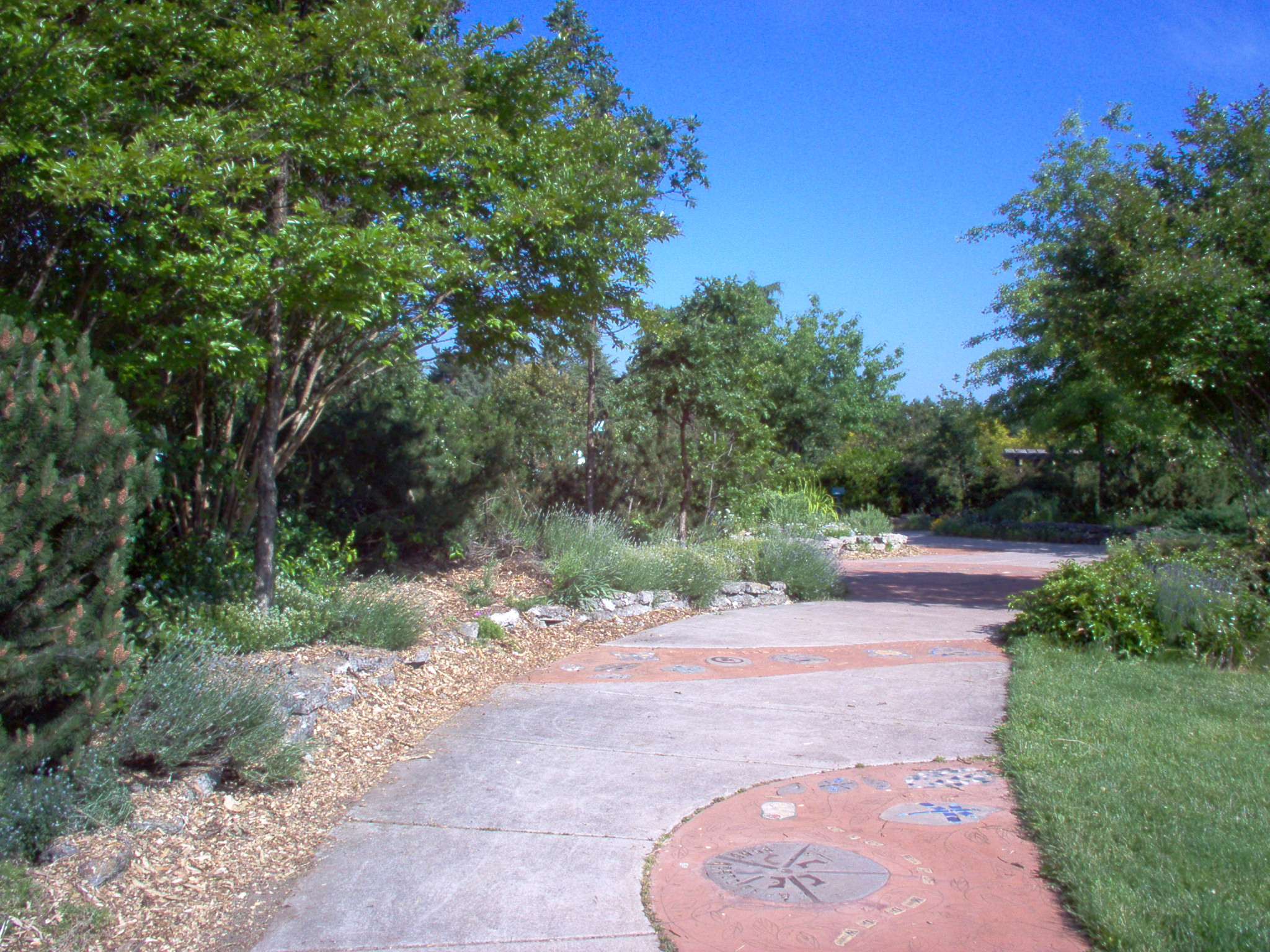 I took this picture myself